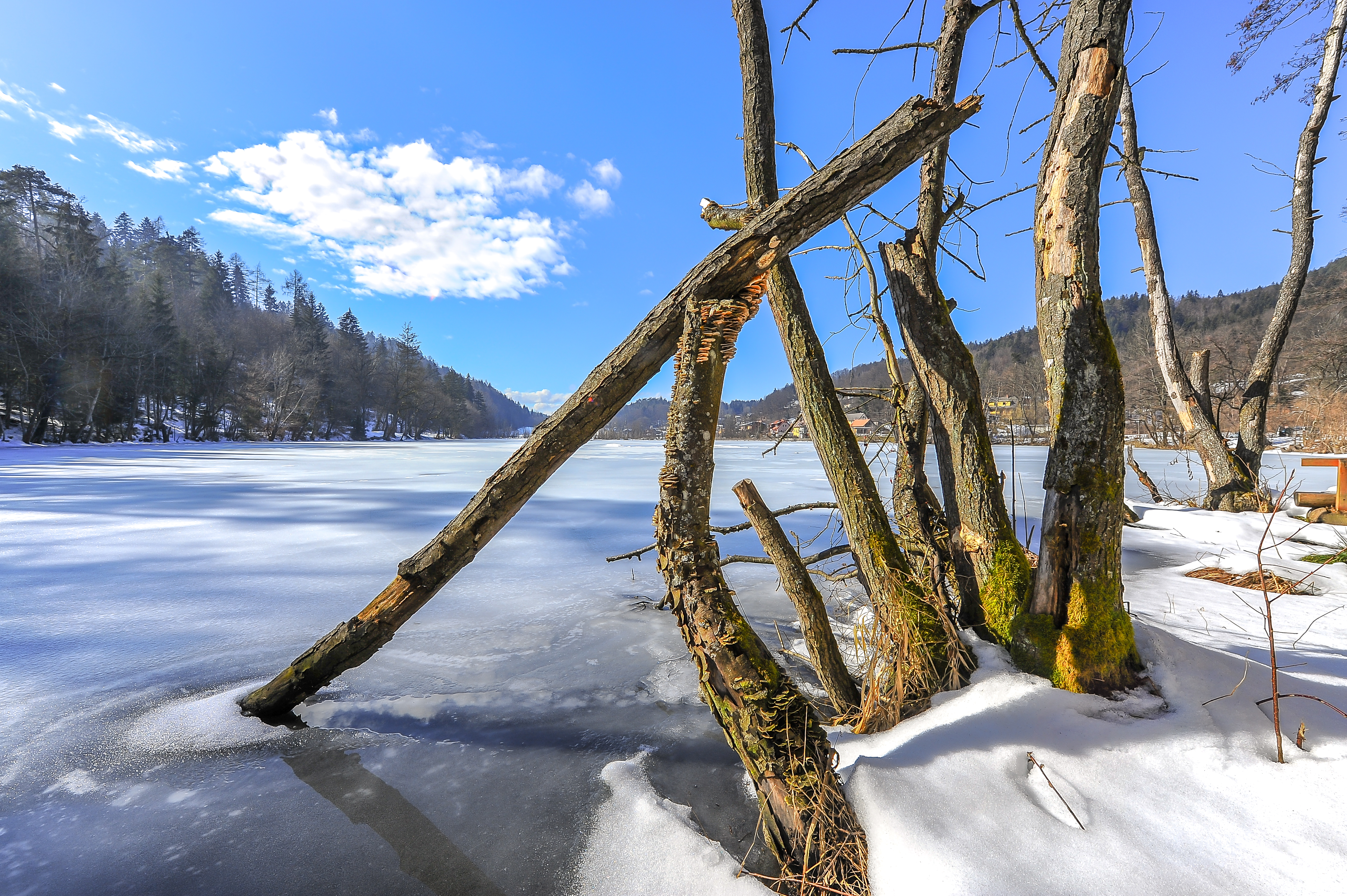 “Treimisch” pond in the 13th district "Viktring" of the Carinthian capital Klagenfurt, Carinthia, Austria, EU